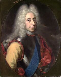 Portrait of Frederik IV of Denmark (1671-1730)